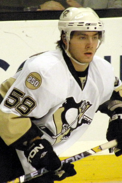 Kristopher Letang from Pittsburgh Penguins